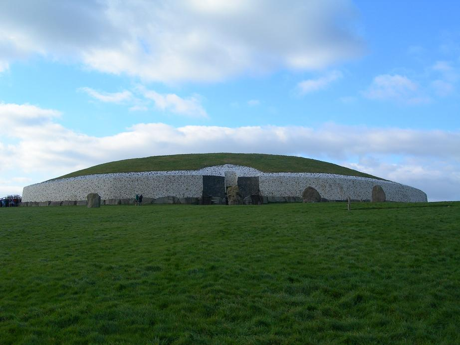 Newgrange